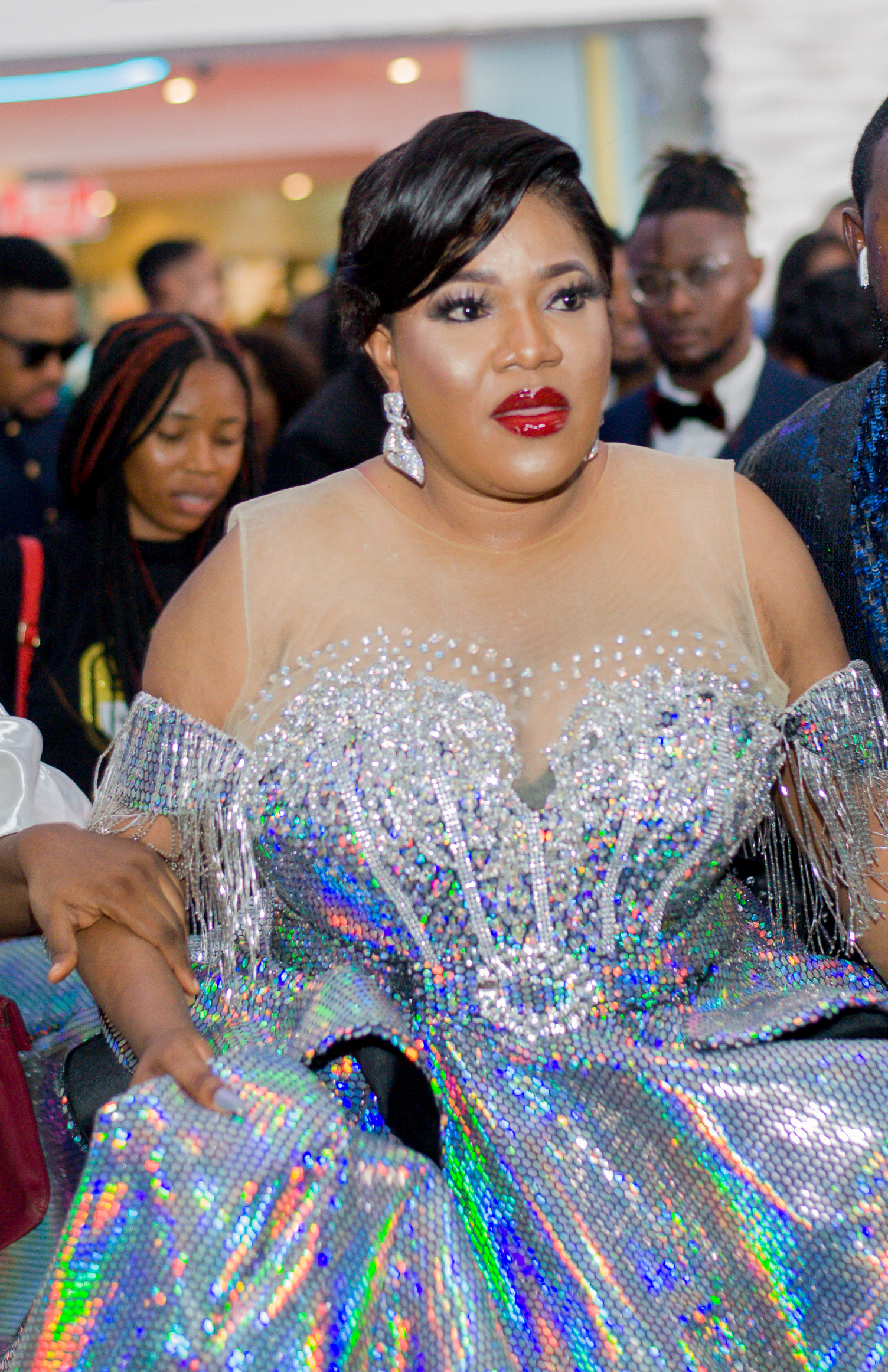 Pictures from AMVCA 2020